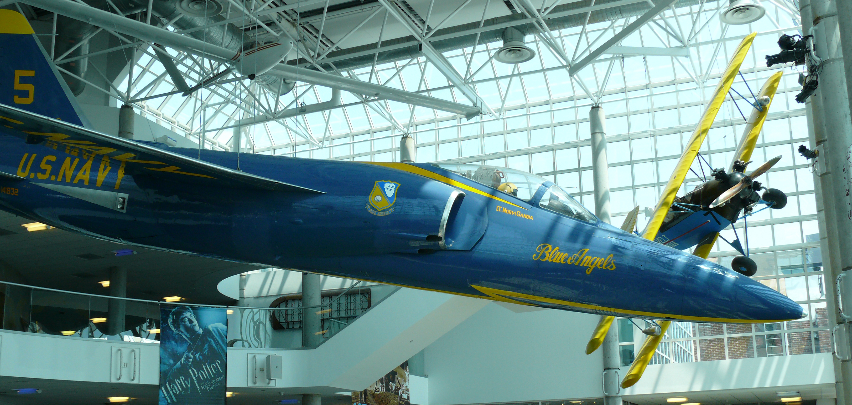 Grumman F-11F Tiger and Fleet Model 2 in the Cradle of Aviation Museum. Grumman F-11F Tiger en Fleet Model 2 in het Cradle of Aviation Museum.